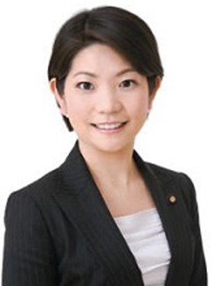 Oonuma Mizuho was inaugurated as Parliamentary Vice-Minister of Health, Labour and Welfare on August, 2017